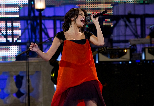 Selena Gomez performing Who Says at 2011 Much Music Video Awards